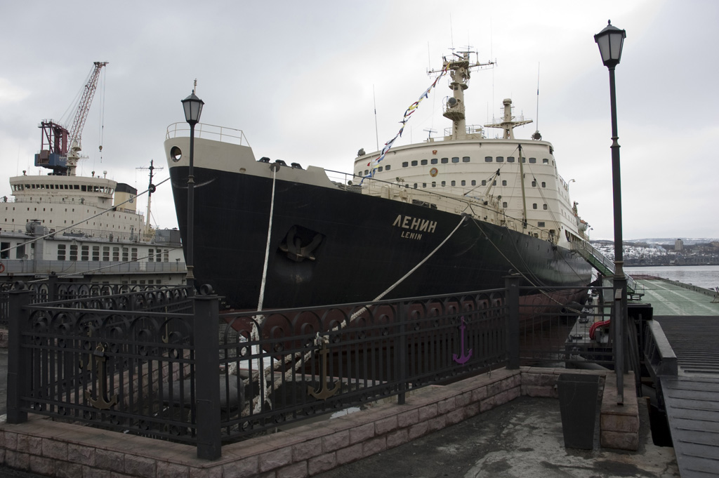 “Nuclear icebreaker Lenin docked in forever in Murmansk”. The world's first civilian nuclear-powered ship, icebreaker Lenin, has docked in forever in the port of Murmansk. It will be converted into the Arctic 's museum.